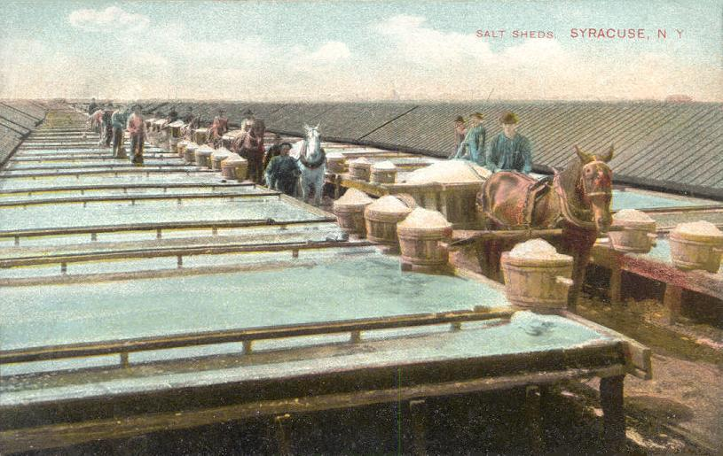 Salt sheds, Syracuse, New York; from a c. 1908 postcard.